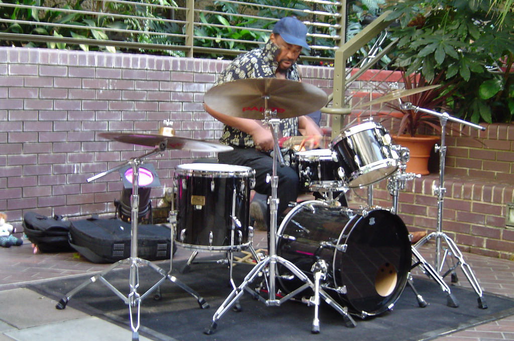 Louis Moholo at Jazz Britannia Barbican 12th February 2005